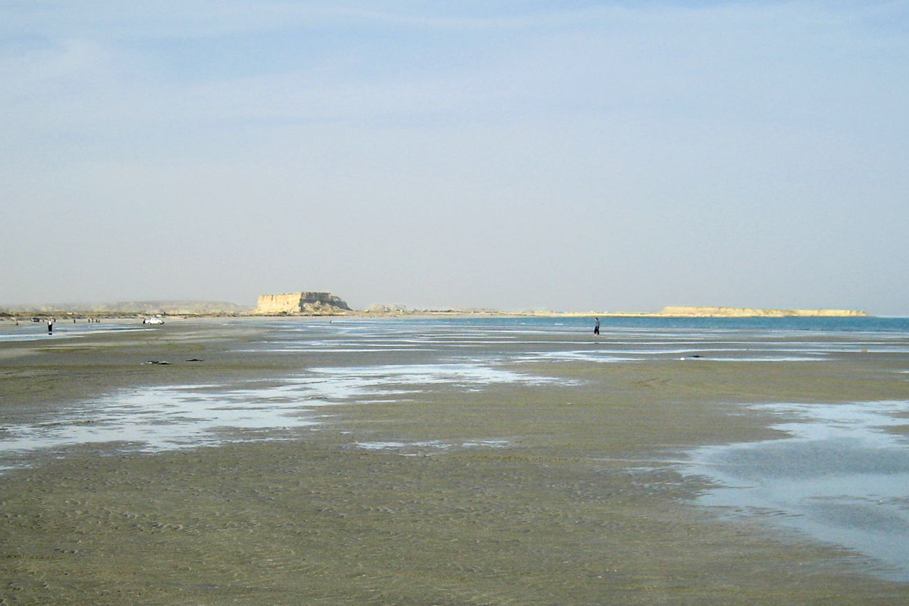 Naaz Islands, Qeshm Island, Iran. sea bed in the time of the ebb.